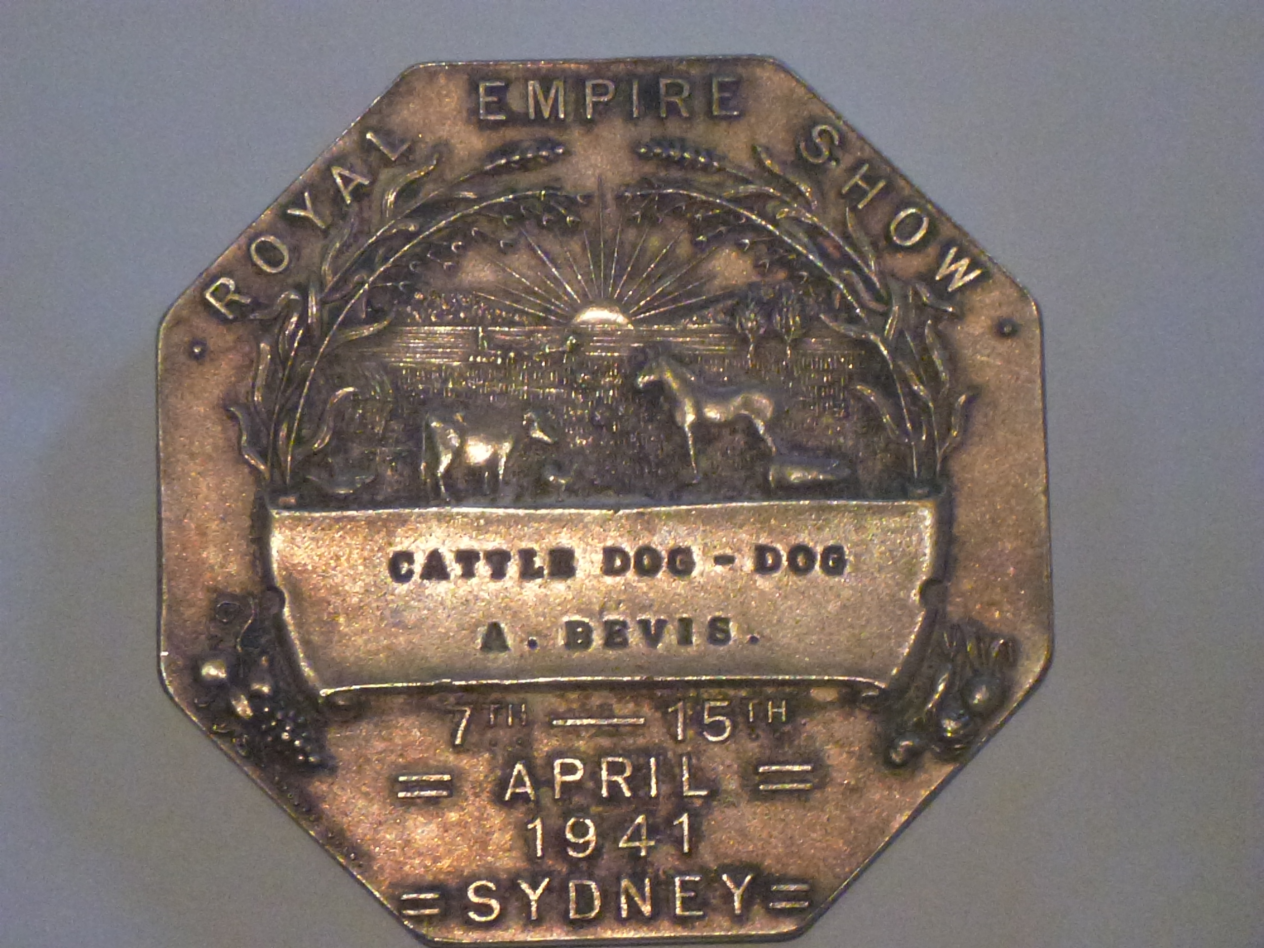 Awarded to A. Bevis. Breeder and owner of "Little Logic". Also confirms the Sydney Royal Easter Show was held at least in some years during WW2